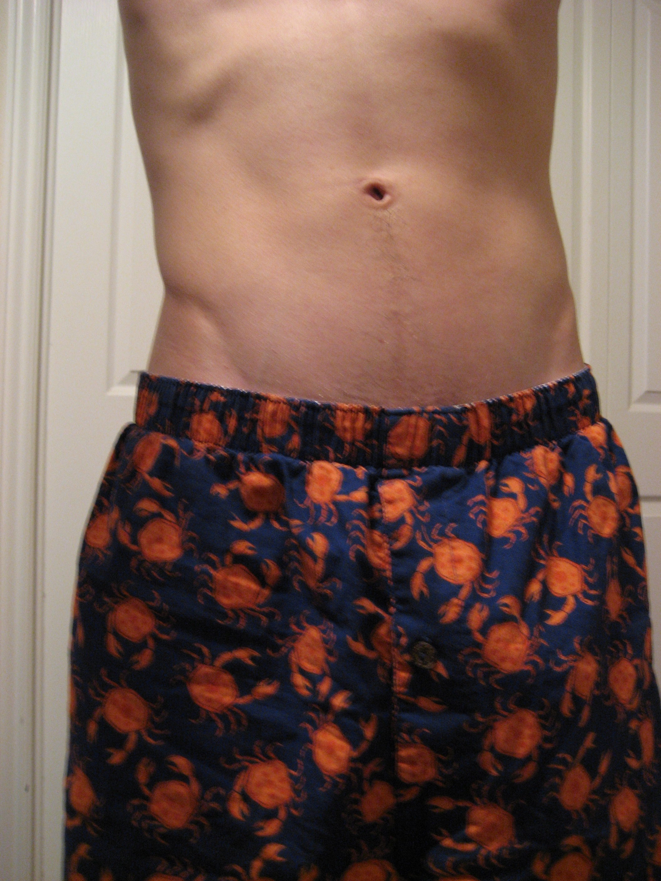 Boy in Boxer Shorts